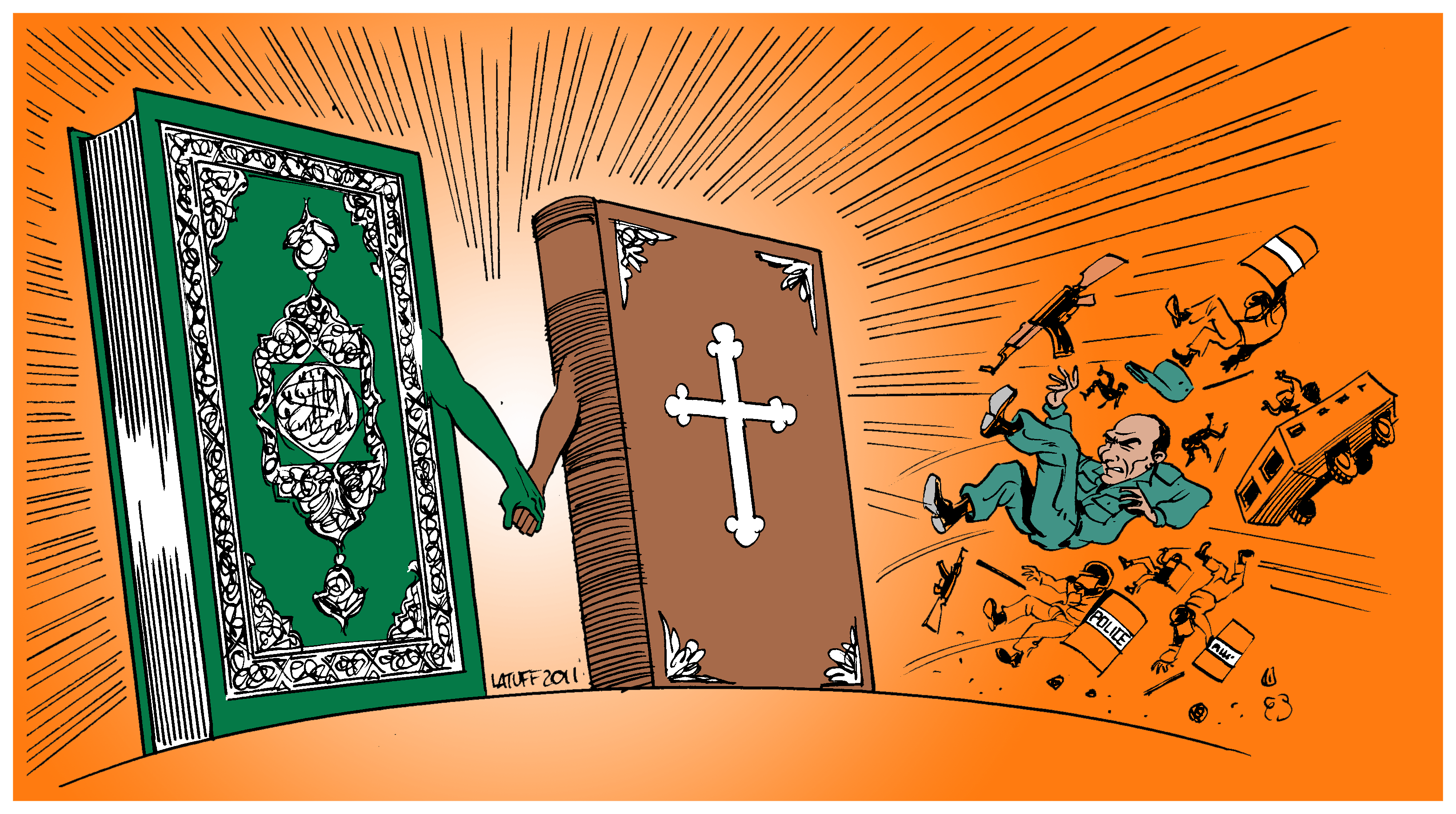 Muslims &Christians united in Egypt and That's what SCAF is afraid of!